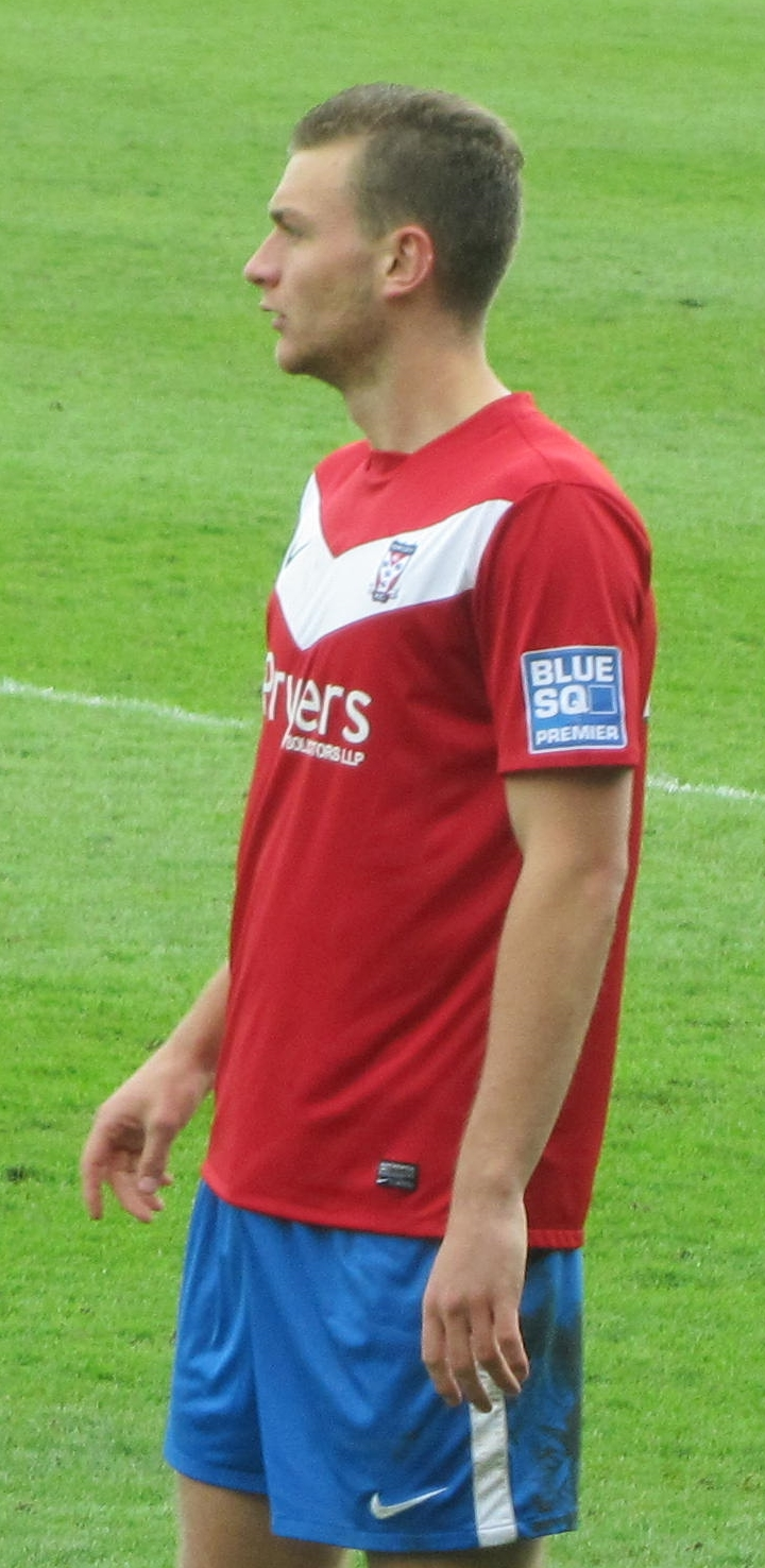 Ben Gibson playing for York City against Fleetwood Town at Bootham Crescent, York on 7 April 2012